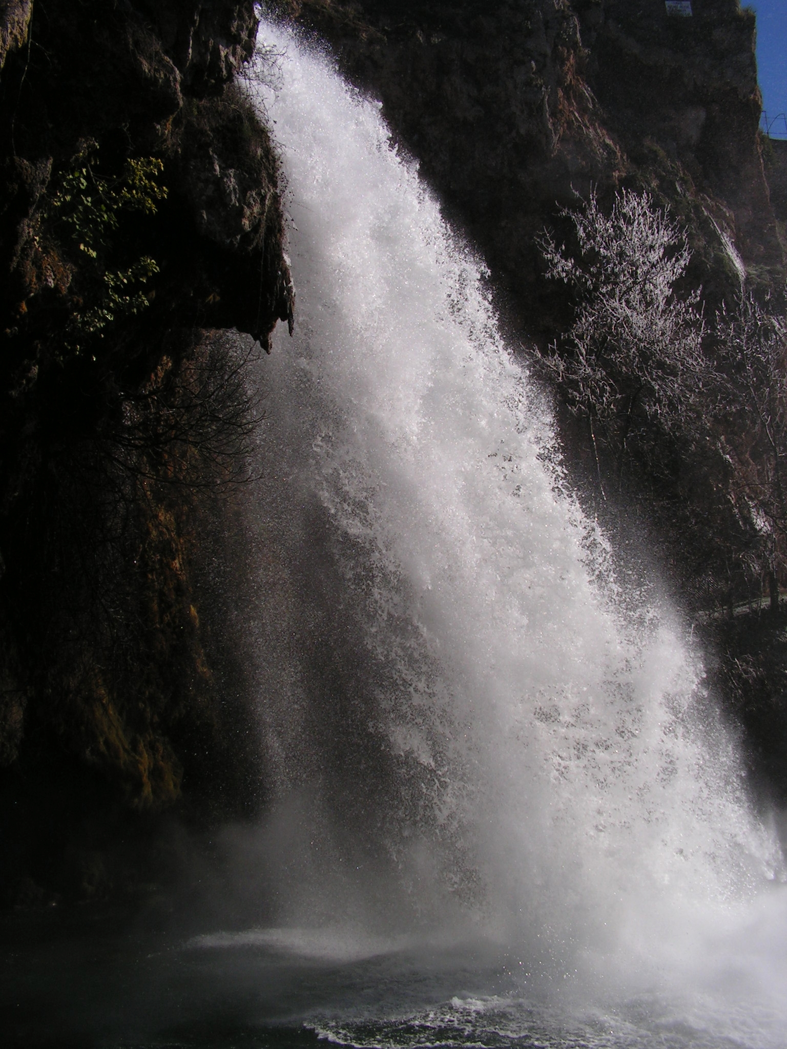 Waterfall of Salles-la-Source (Aveyron, France) during winter.